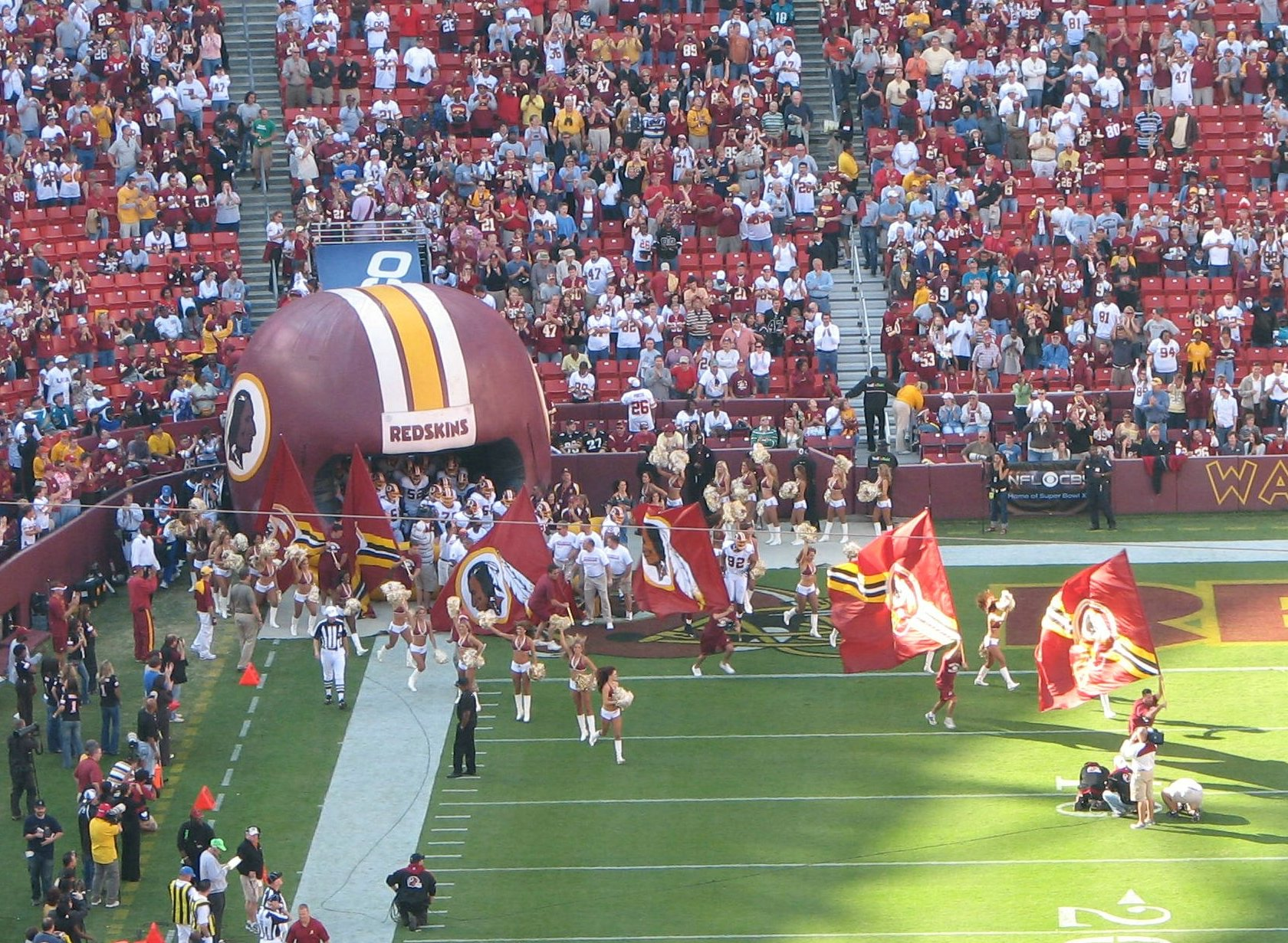 Washington Redskins game at FedExField, Landover, Maryland, USA